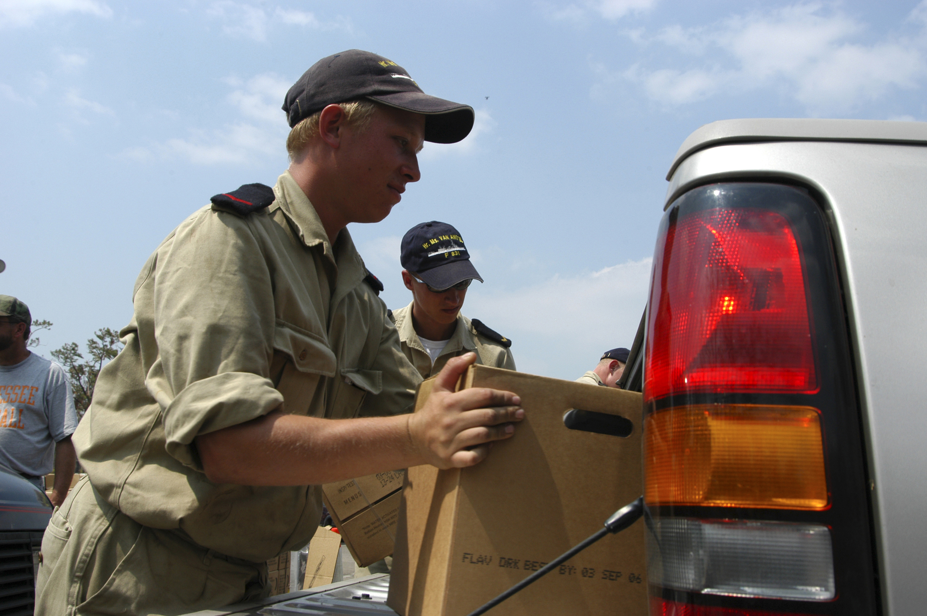 Gulfport, Miss. (Sept. 12, 2005) – A Dutch Sailor loads a box of water as part of the voluntary efforts to help the victims of Hurricane Katrina at the First Baptist Church in Biloxi. The Dutch Navy is assisting the U.S. Navy in providing humanitarian assistance to victims of Hurricane Katrina. The Navy's involvement in the humanitarian assistance operations are being led by the Federal Emergency Management Agency (FEMA), in conjunction with the Department of Defense. U.S. Navy photo by Photographer’s Mate Airman Pedro A. Rodriguez (RELEASED)